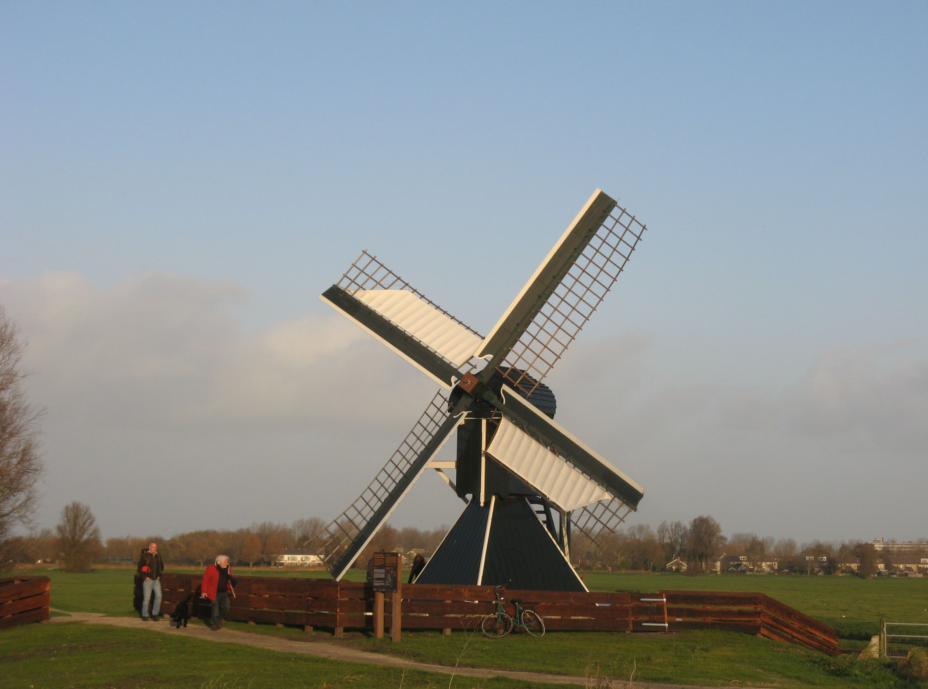 Windmill spinnenkop Terpensmole near IJlst, the Netherlands